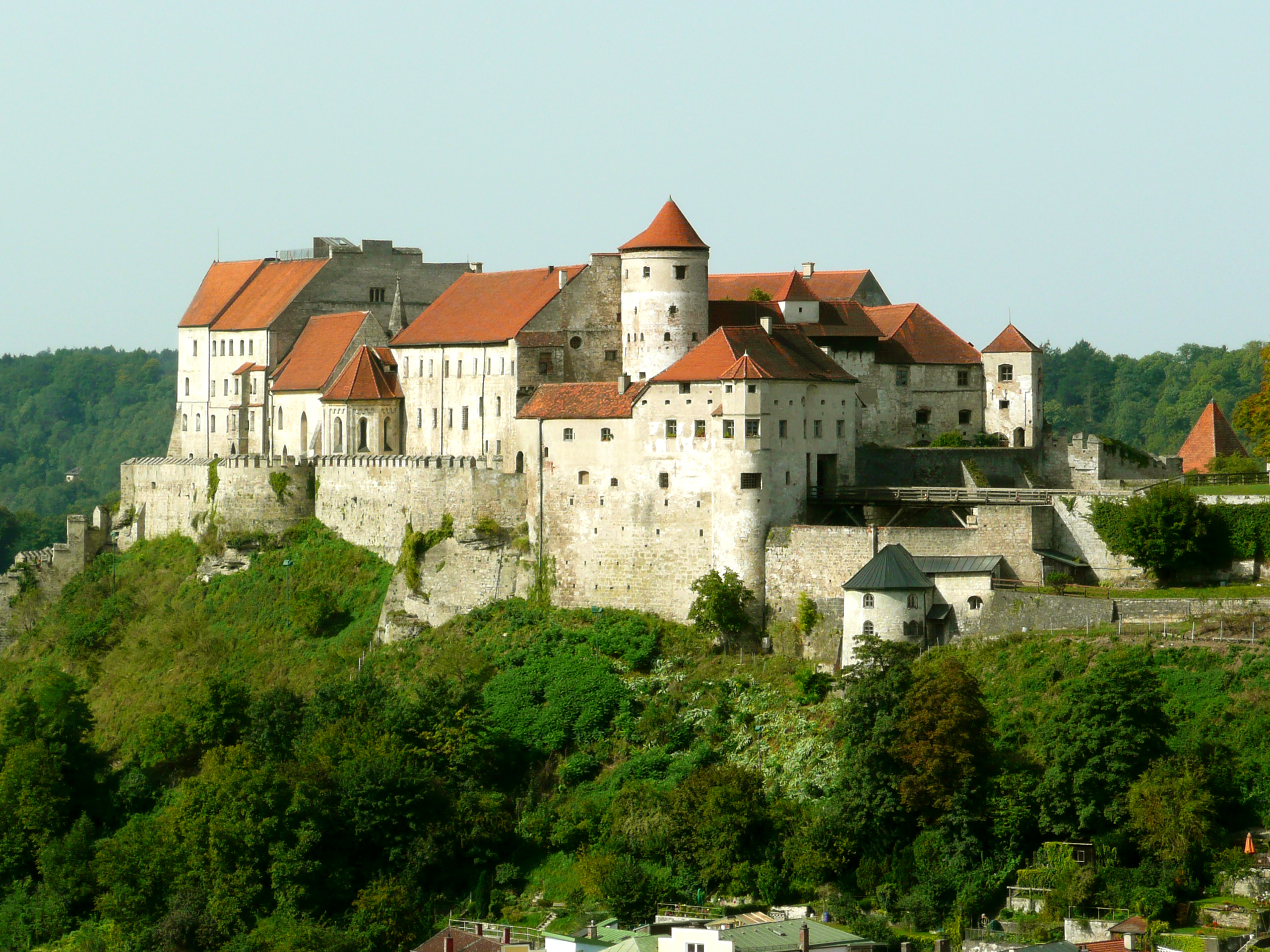 Castle of Burghausen (Upper Bavaria) viewed from the Austrian side of the Salzach river. At the death of the last count of Burghausen in 1168, the castle was transferred to the Wittelsbachs, a family which ruled the Duchy of Bavaria between 1180 and 1918. With the partition of Bavaria between the Palatinate and Lower Bavaria in 1255, Burghausen Castle became the second residence of the dukes of Lower Bavaria (after Landshut). The dukes of Bavaria-Landshut (1392-1503), extended the fortifications around the entire castle hill, and the castle became the strongest fortress of the region. By the peace of Teschen (1779), the Innviertel was ceded to Austria, and Burghausen became a border castle between Bavaria and the Empire of Austria.